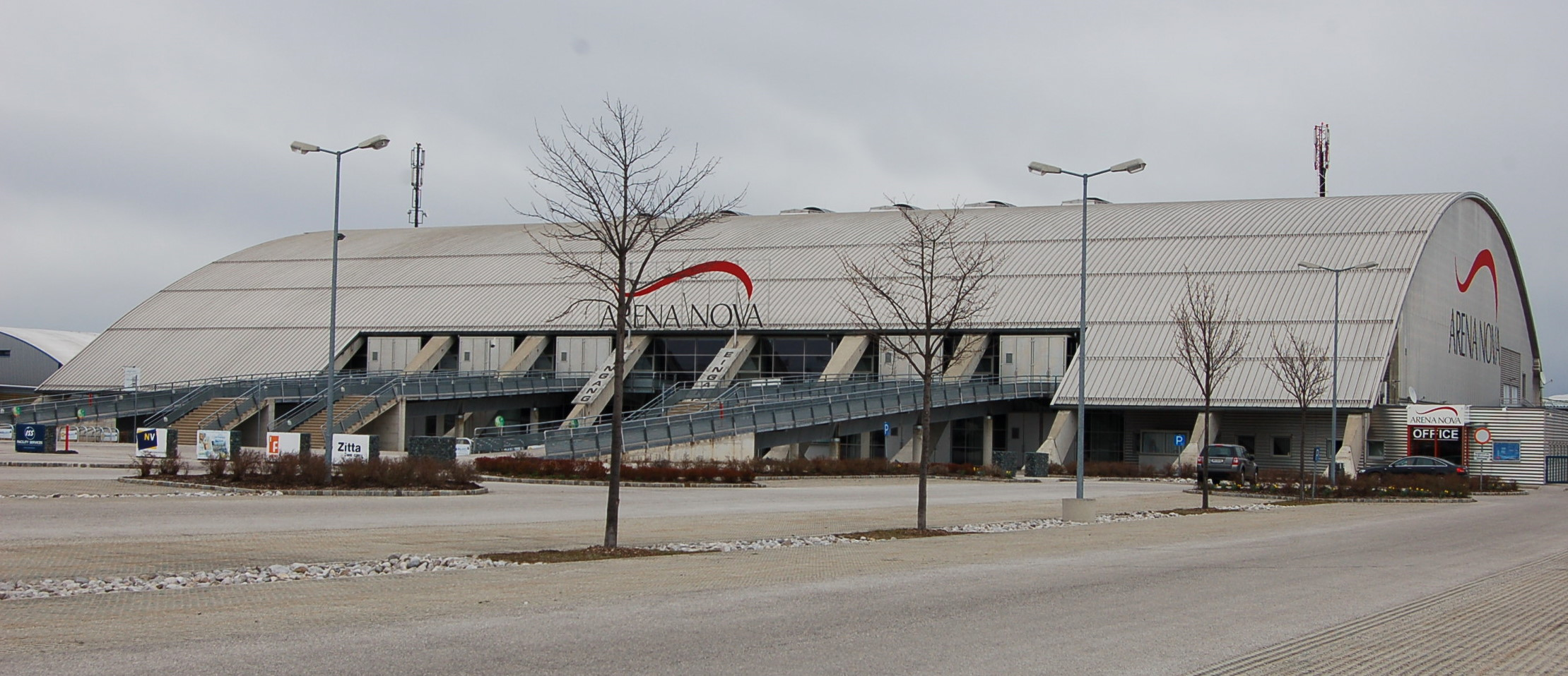 Multipurpose hall Arena Nova, Wiener Neustadt, Lower Austria